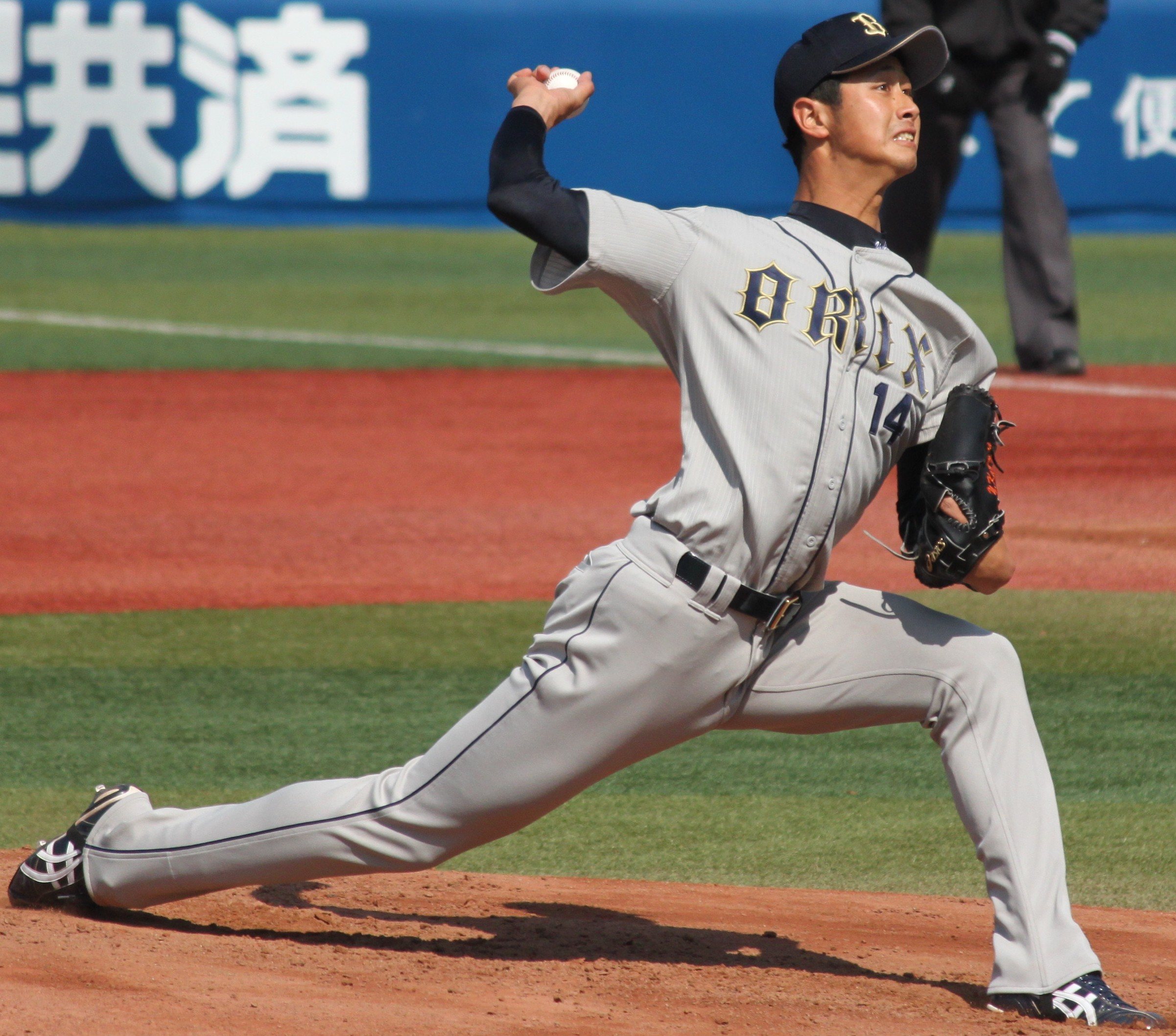 Kazumasa Yoshida, pitcher of the Orix Buffaloes, at Yokohama Stadium.